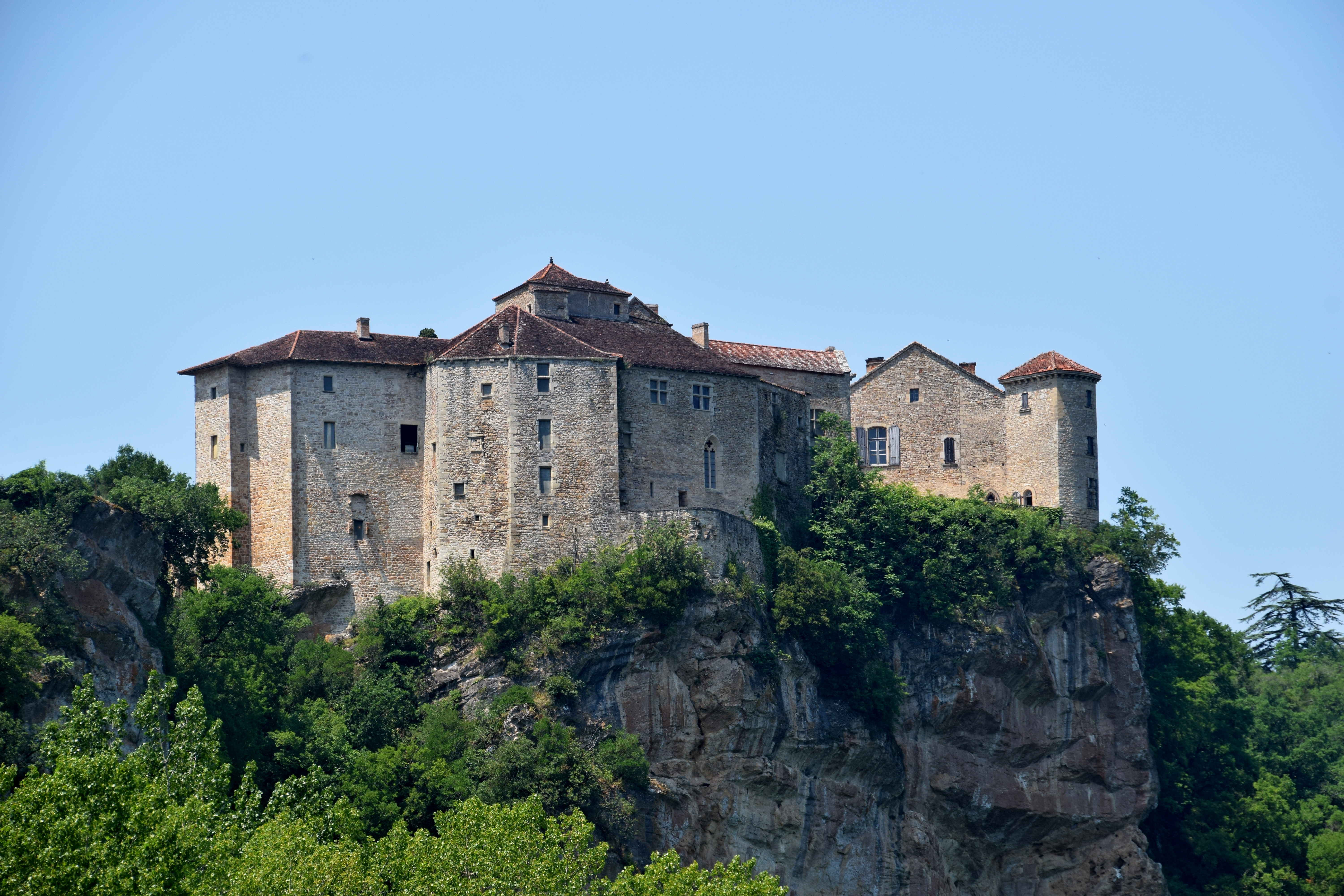 Castle of Bruniquel, Tarn-et-Garonne, France